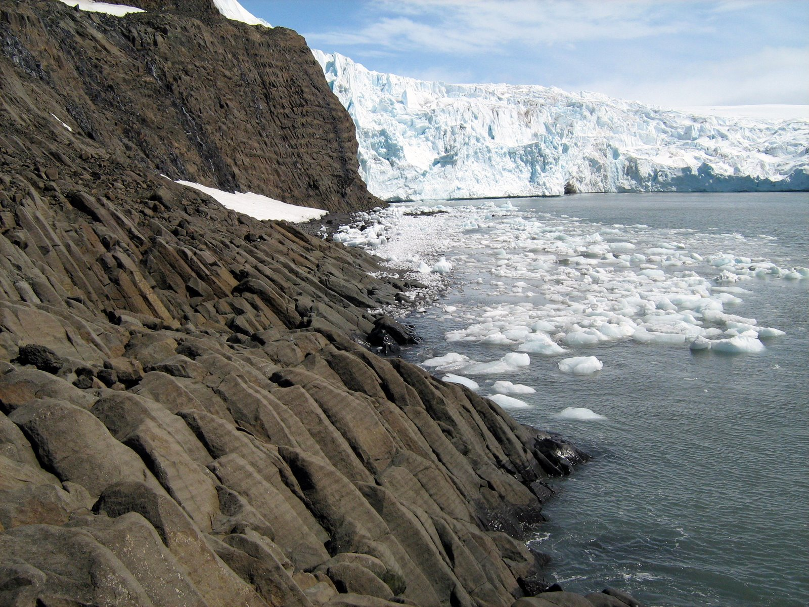 Columnar basalt on King George Island.JPG